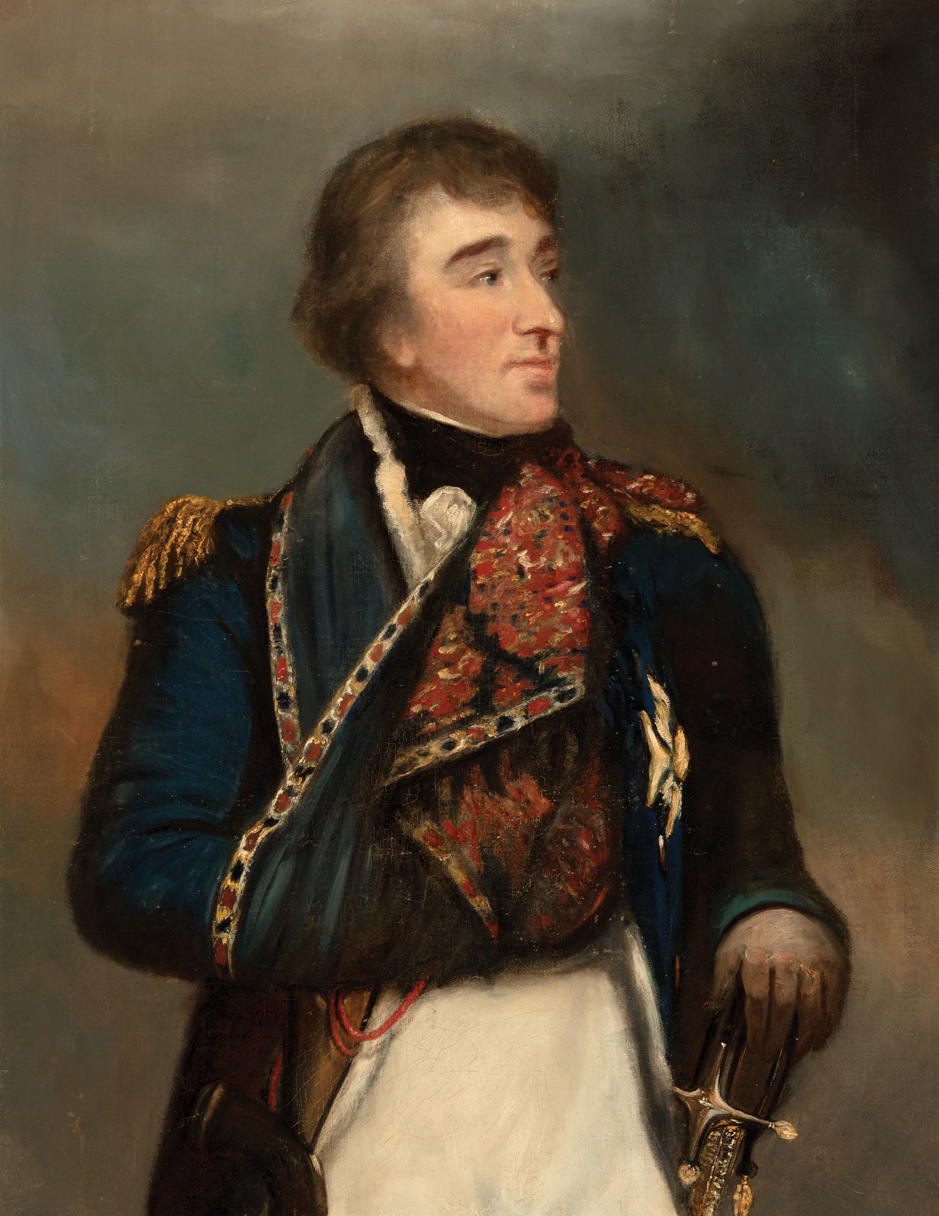 This portrait of Royal Navy Commodore Sir Sidney Smith was painted by Robert Ker Porter in London in early 1802. It shows how Smith looked during the Battle of Alexandria when General Ralph Abercrombie was mortally wounded. Smith had been shot in the right shoulder by a spent musket ball causing a painful contusion. The arm sling is made from his Turkish sash he wore in the battle and at the Siege of Acre. This is a staged portrait. By the time had returned to London, he was fully recovered. This portrait was then engraved by Edward Mitchell in 1805 to help depict the scene of the Death of General Abercrombie.